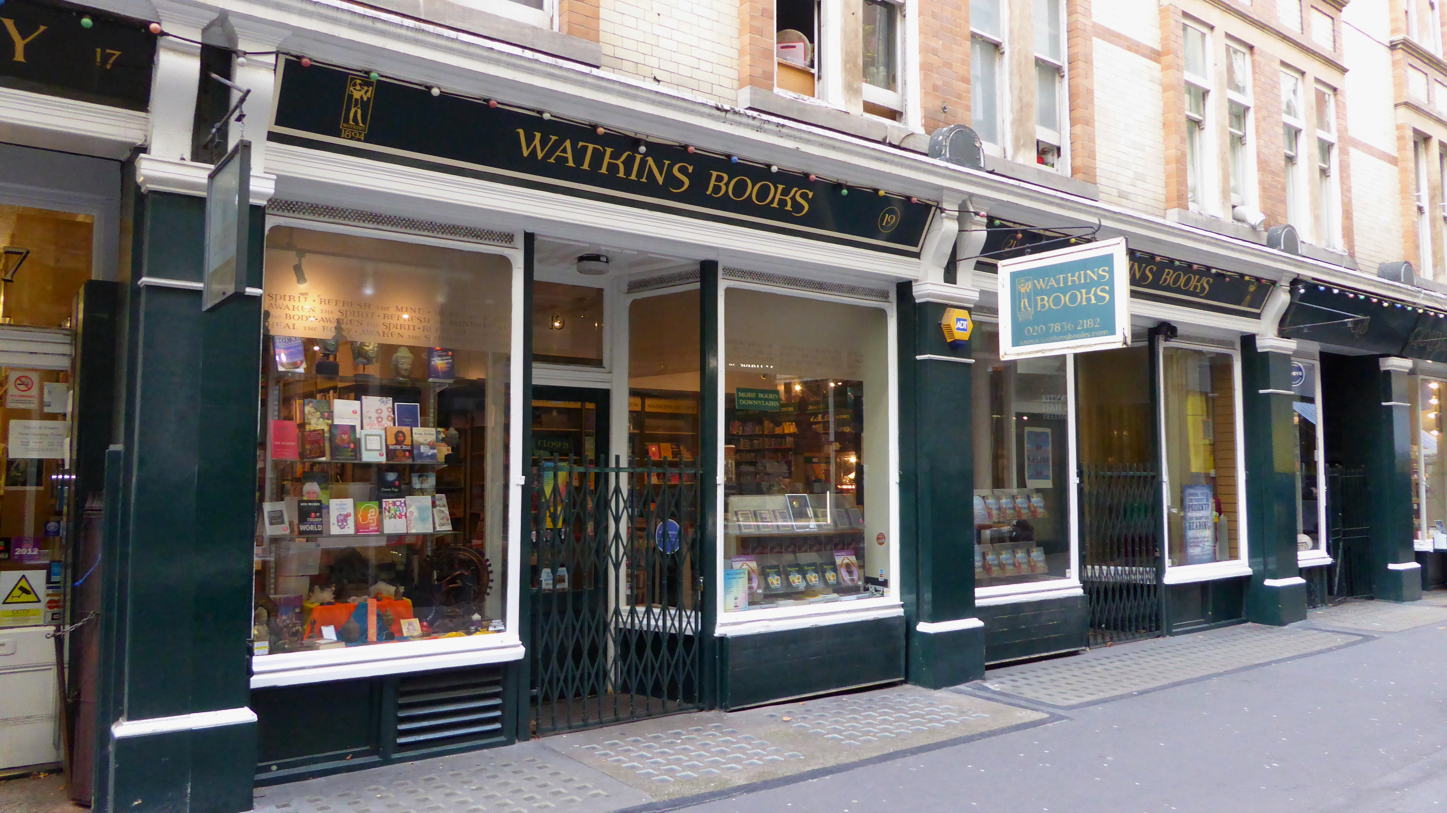 Watkins Books, an esoteric bookstore in Cecil Court in the City of Westminster.